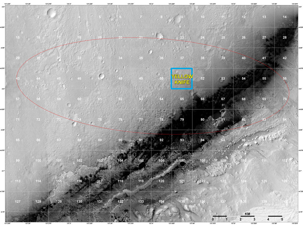 08.09.2012 Staking out Curiosity's Landing Site The geological context for the landing site of NASA's Curiosity rover is visible in this image mosaic obtained by the High-Resolution Imaging Science Experiment (HiRISE) camera on NASA's Mars Reconnaissance Orbiter. The area around the landing site has been divided into square areas of interest about .9-mile (1.5-kilometers) wide. The mission has divided the surface into those quadrangles, or quads, so that groups of team members can focus their analysis on a particular part of the surface. Mt. Sharp is to the bottom right, out of the picture. HiRISE is one of six instruments on NASA's Mars Reconnaissance Orbiter. The University of Arizona, Tucson, operates the orbiter's HiRISE camera, which was built by Ball Aerospace & Technologies Corp., Boulder, Colo. NASA's Jet Propulsion Laboratory, a division of the California Institute of Technology in Pasadena, manages the Mars Reconnaissance Orbiter Project for the NASA Science Mission Directorate, Washington. Lockheed Martin Space Systems, Denver, built the spacecraft. Image Credit: NASA/JPL-Caltech/Univ. of Arizona